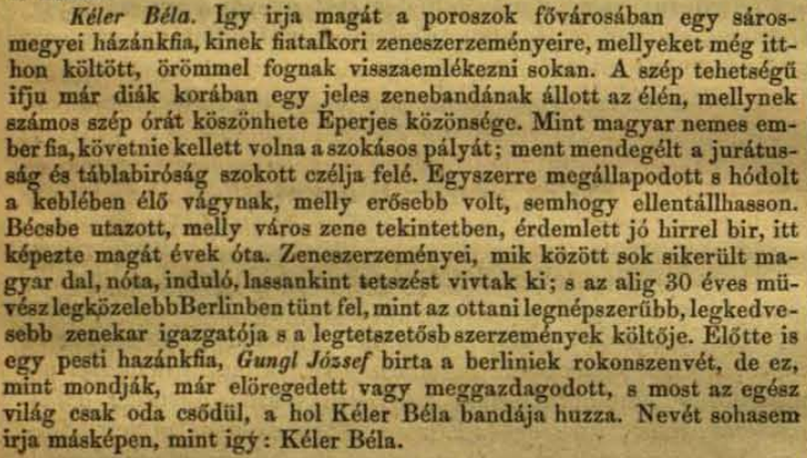 Message (Kéler Béla)